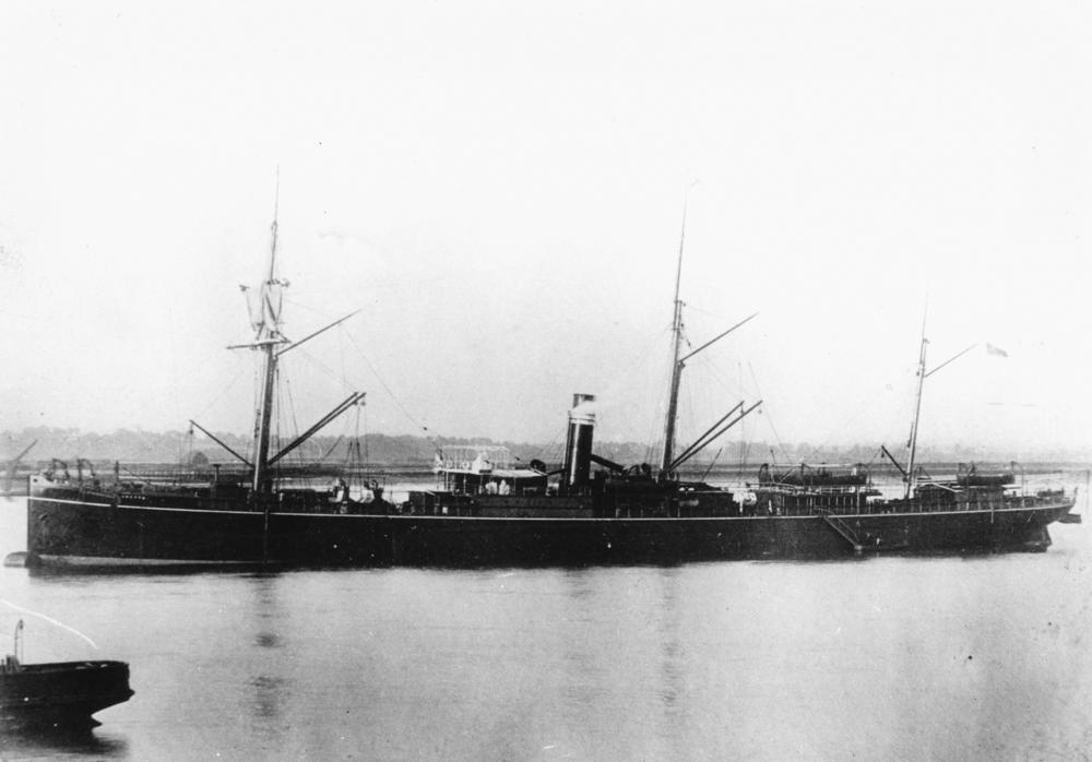 RMS Quetta in 1884 near Gravesend in the River Thames. (Description supplied with photograph.) She was wrecked in the Torres Strait off Queensland on 18 February 1890.